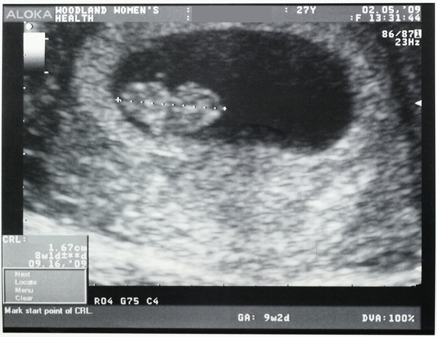 An ultrasound of a human fetus, measured to be 1.67 cm from crown to rump, and estimated therefore to have gestational age 8 weeks and 1 day.